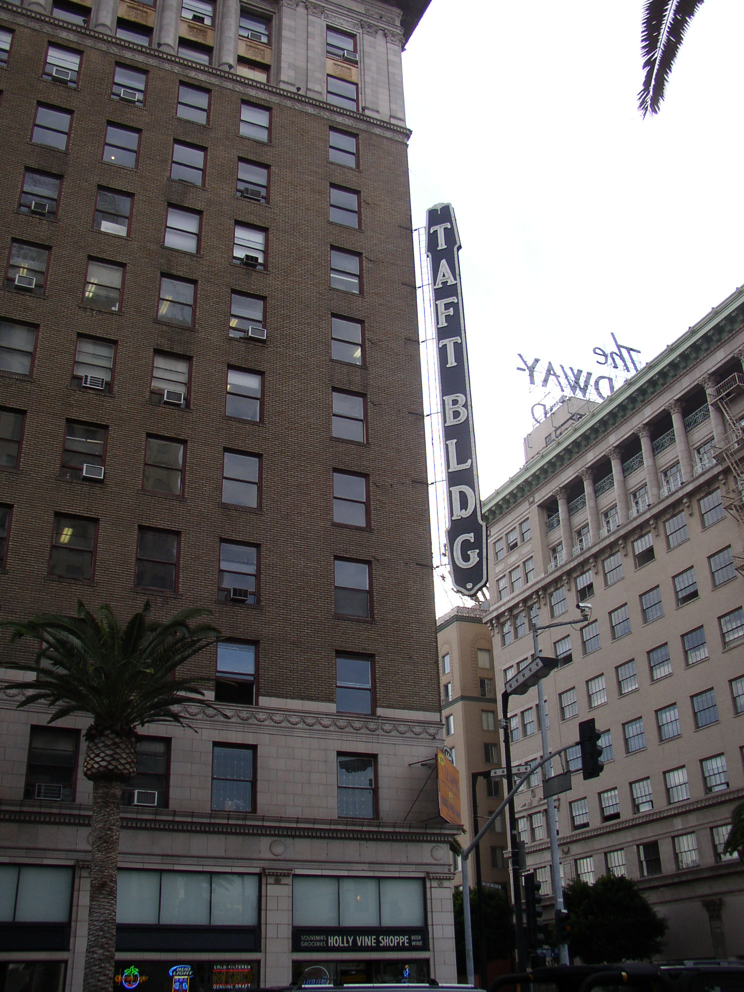 The Taft Building is where many of Charlie Chaplin's films were conceived and written.